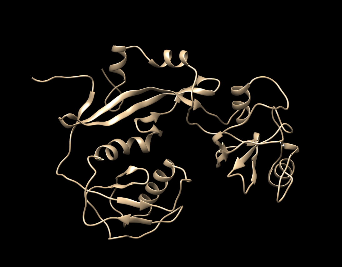 Predicted 3d structure for DUF 4708